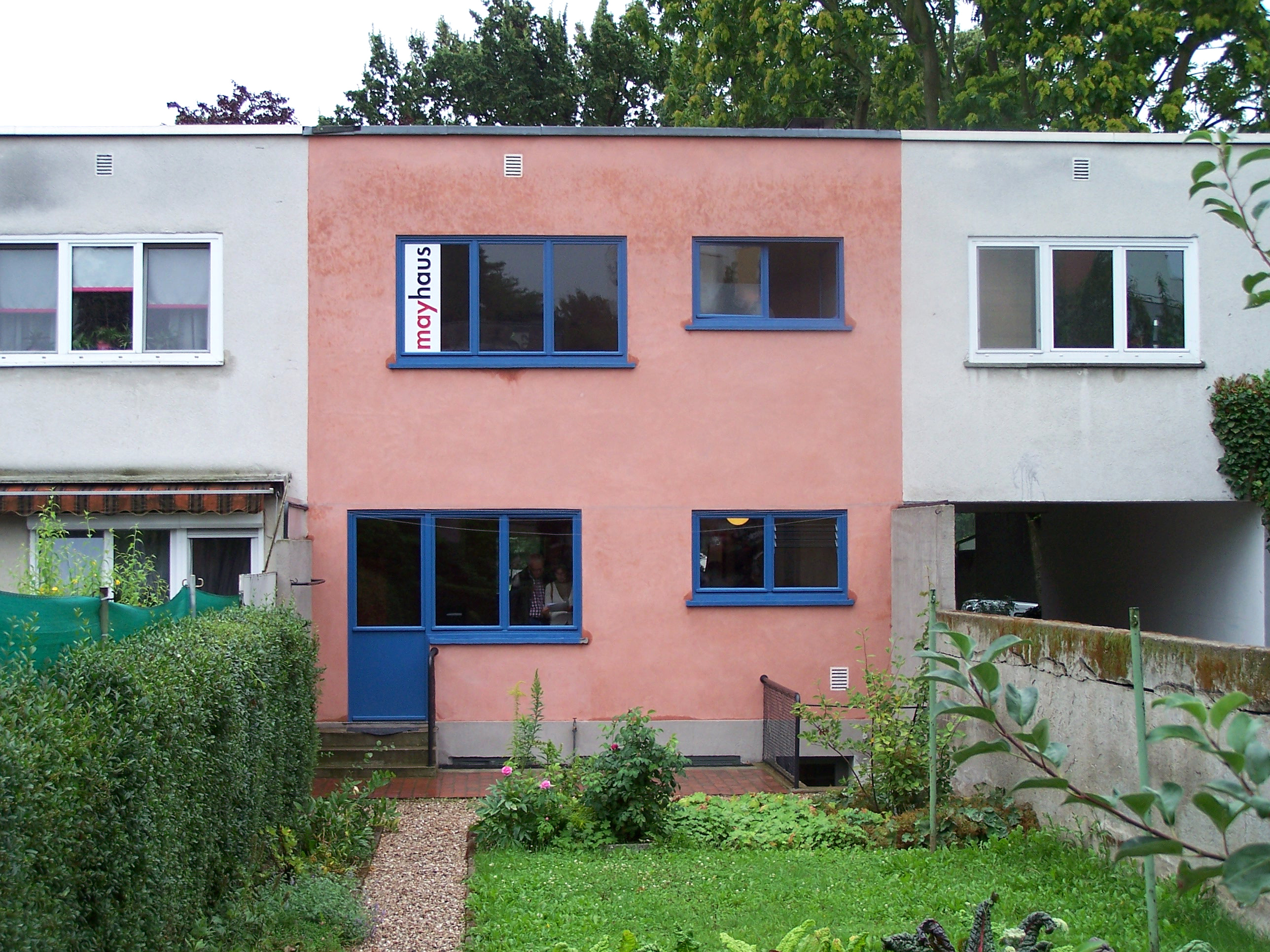 Back side of the Ernst-May-House in the Römerstadt settlement, Im Burgfeld 136, in Frankfurt am Main-Heddernheim, Germany, August 2010